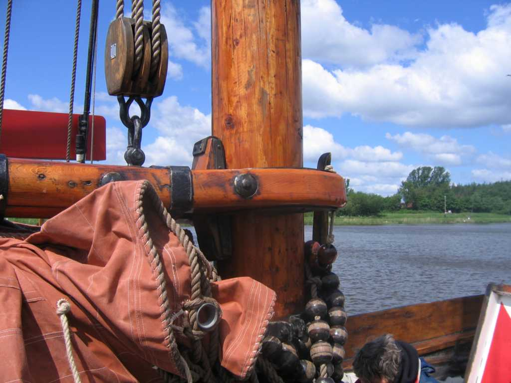 part of sailingship, throat